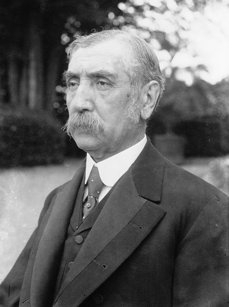 Ottoman statesman Damad Ferid Pasha (1853-1923).